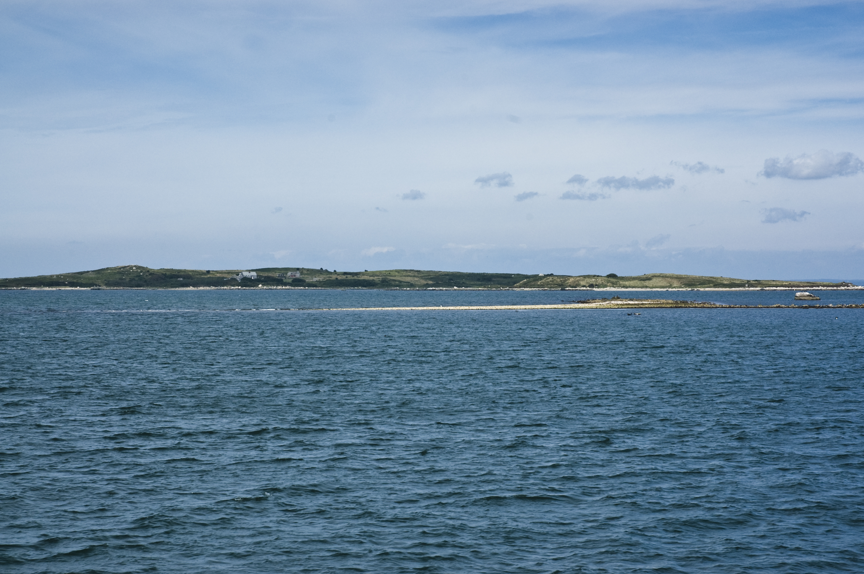 Photo of Penikese Island, Massachusetts.